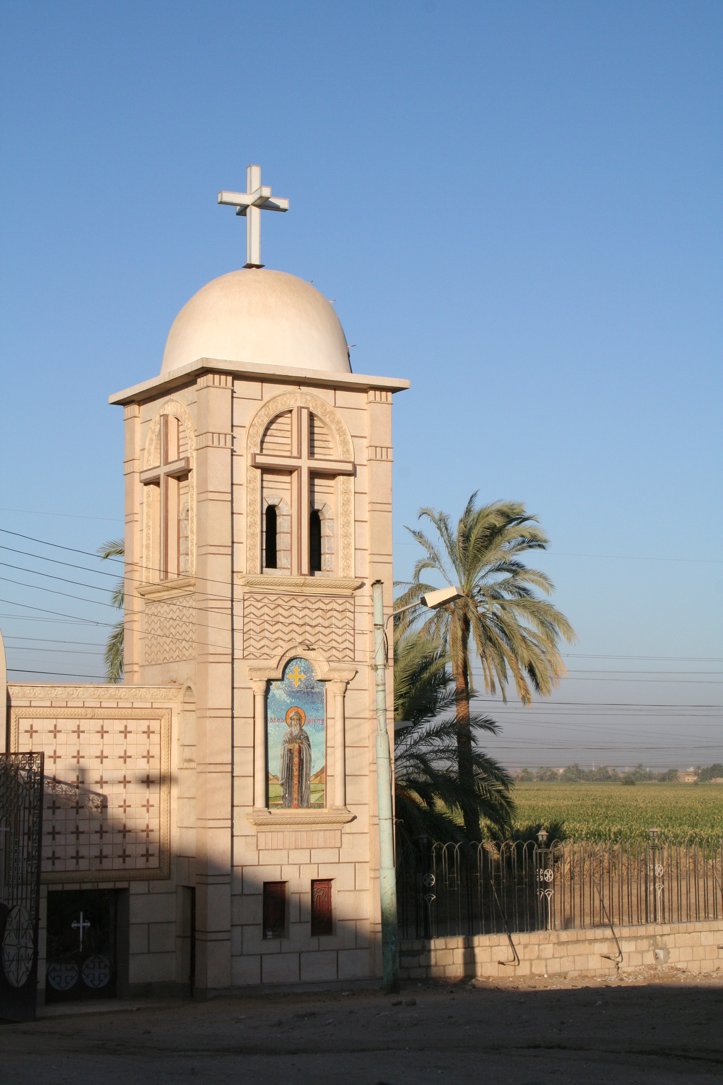 The White Monastery at Sohag